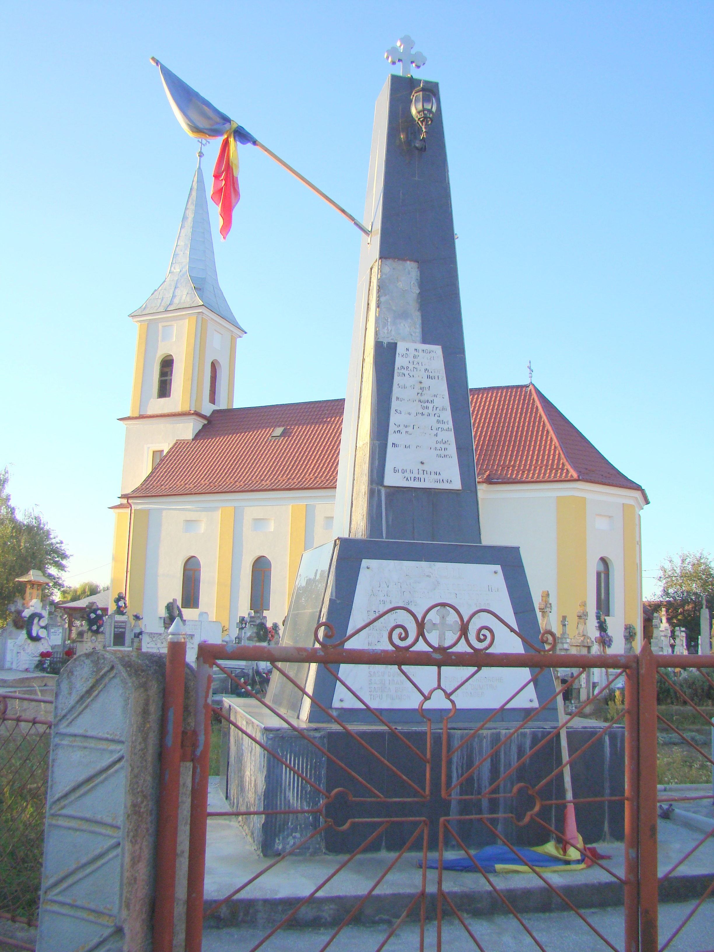 Hurez, Brașov County, Romania